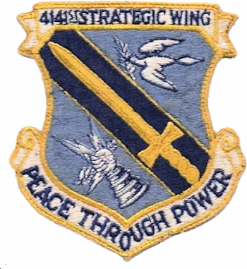 A copy of this emblem was downloaded from for use in my book “The Genealogy of the STRATEGIC AIR COMMAND” with the webmasters’ approval.